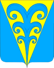 Coat of arms of Fontalovskaya, Krasnodar Krai, Rusia.